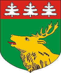 Coat of arms of Jõhvi vald, Estonia